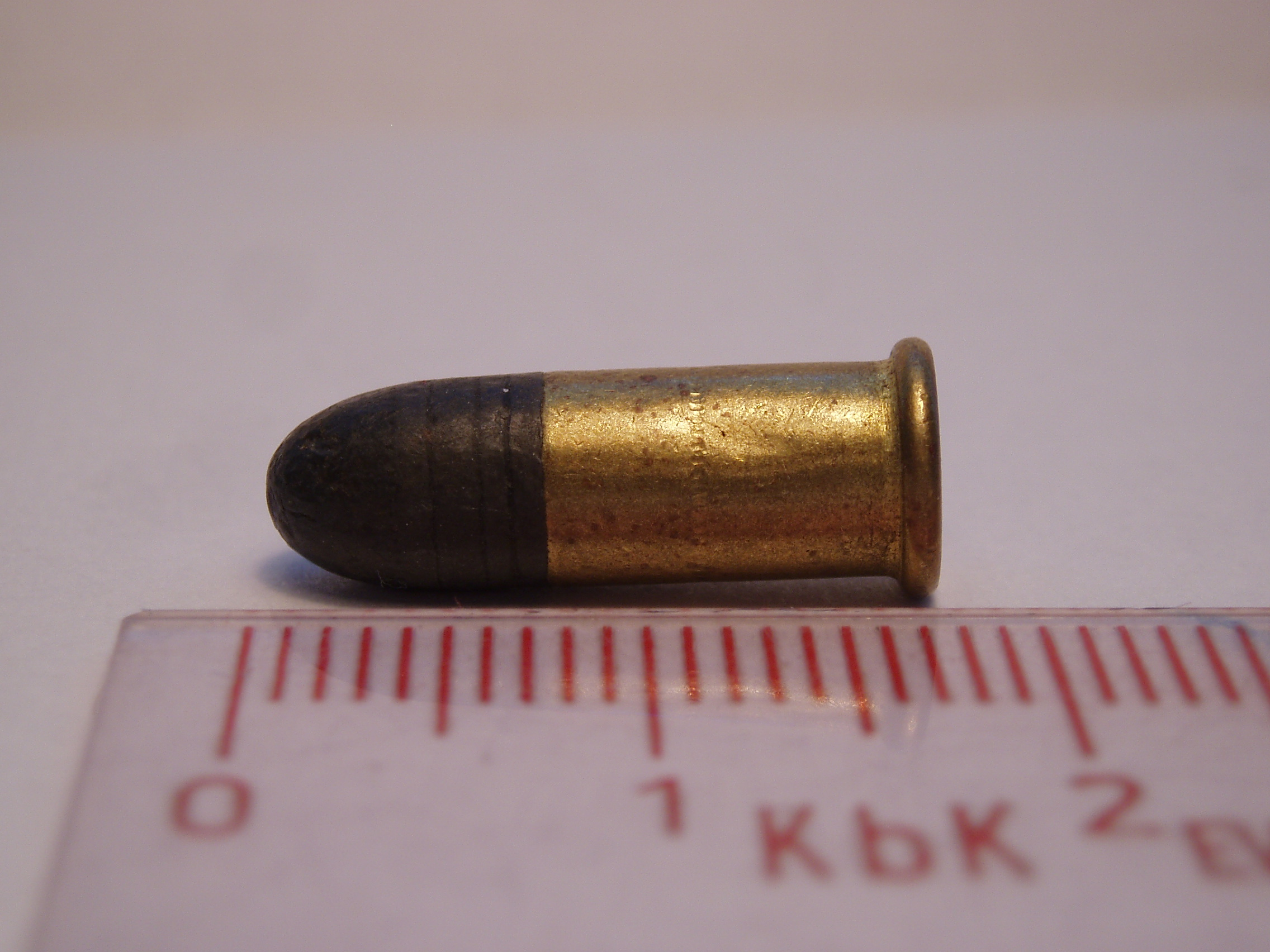 .22 CB short pistol cartridge.